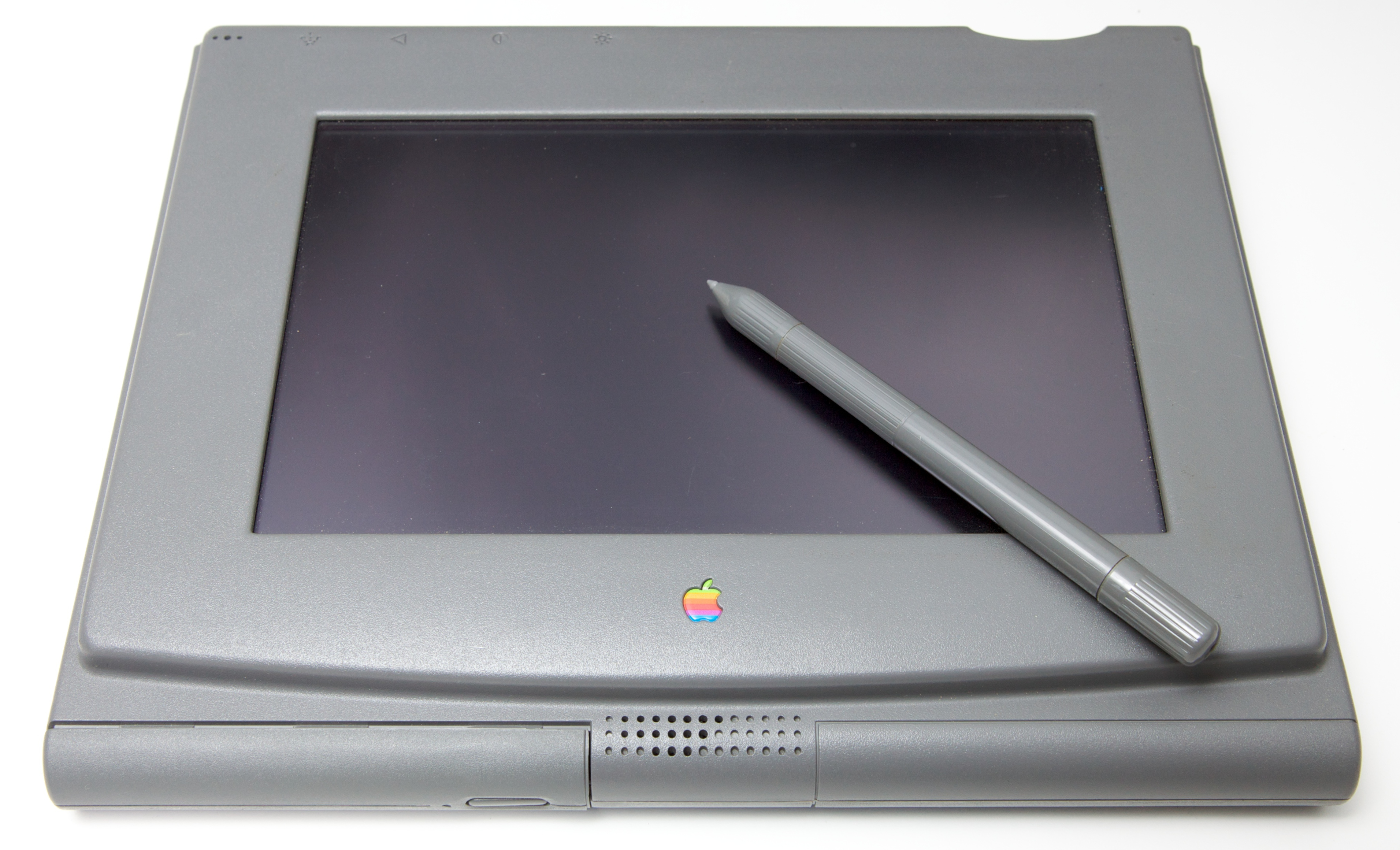 Apple PenLite prototype (1992)